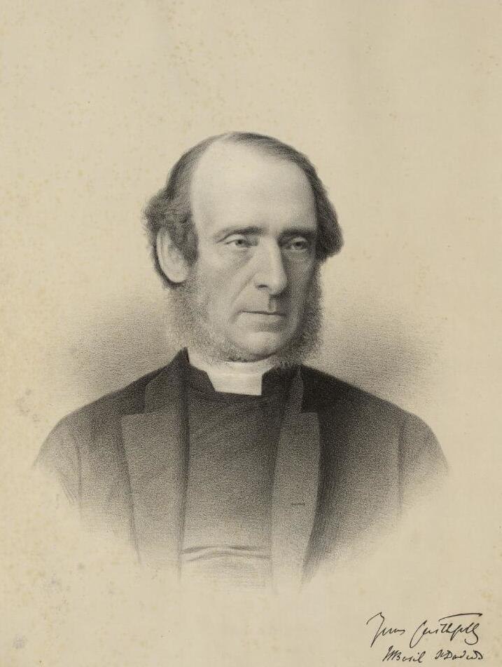 A portrait from the Welsh Portrait Collection at the National Library of Wales. Depicted person: Basil Jones – British bishop